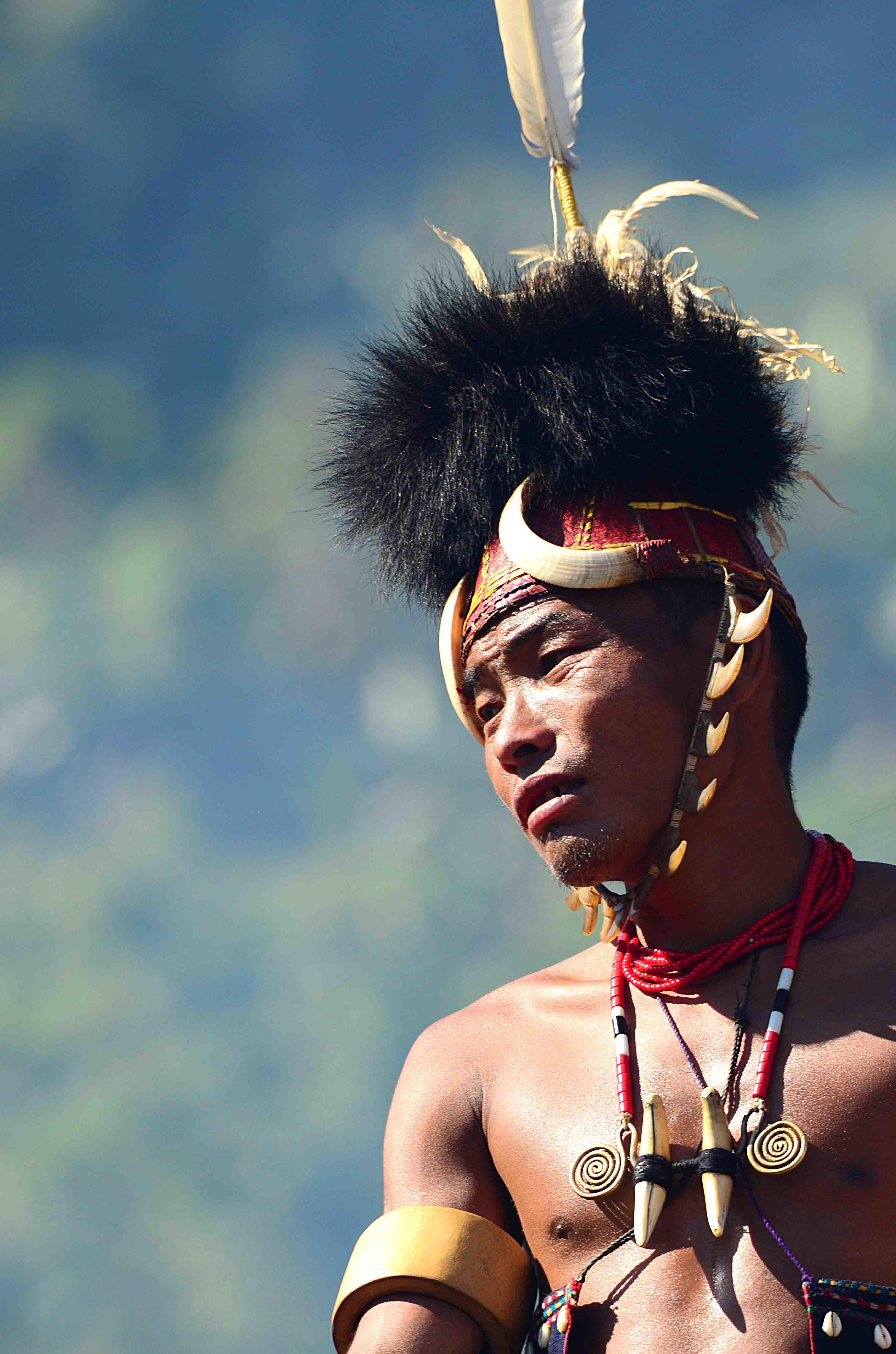 A Naga warrior from Nagaland, India during the Hornbill Festival in Nagaland